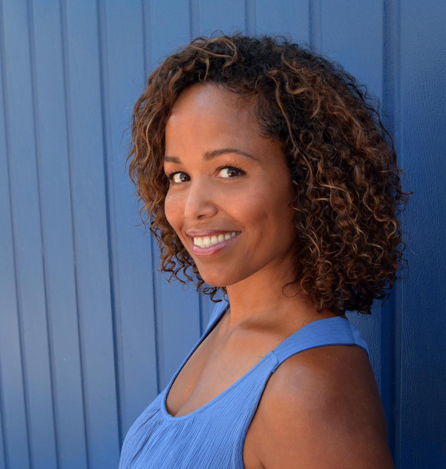 A portrait of Seba Johnson, the First African American female Alpine Ski Racer in Olympic History and the Youngest Alpine Ski Racer in Olympic History..